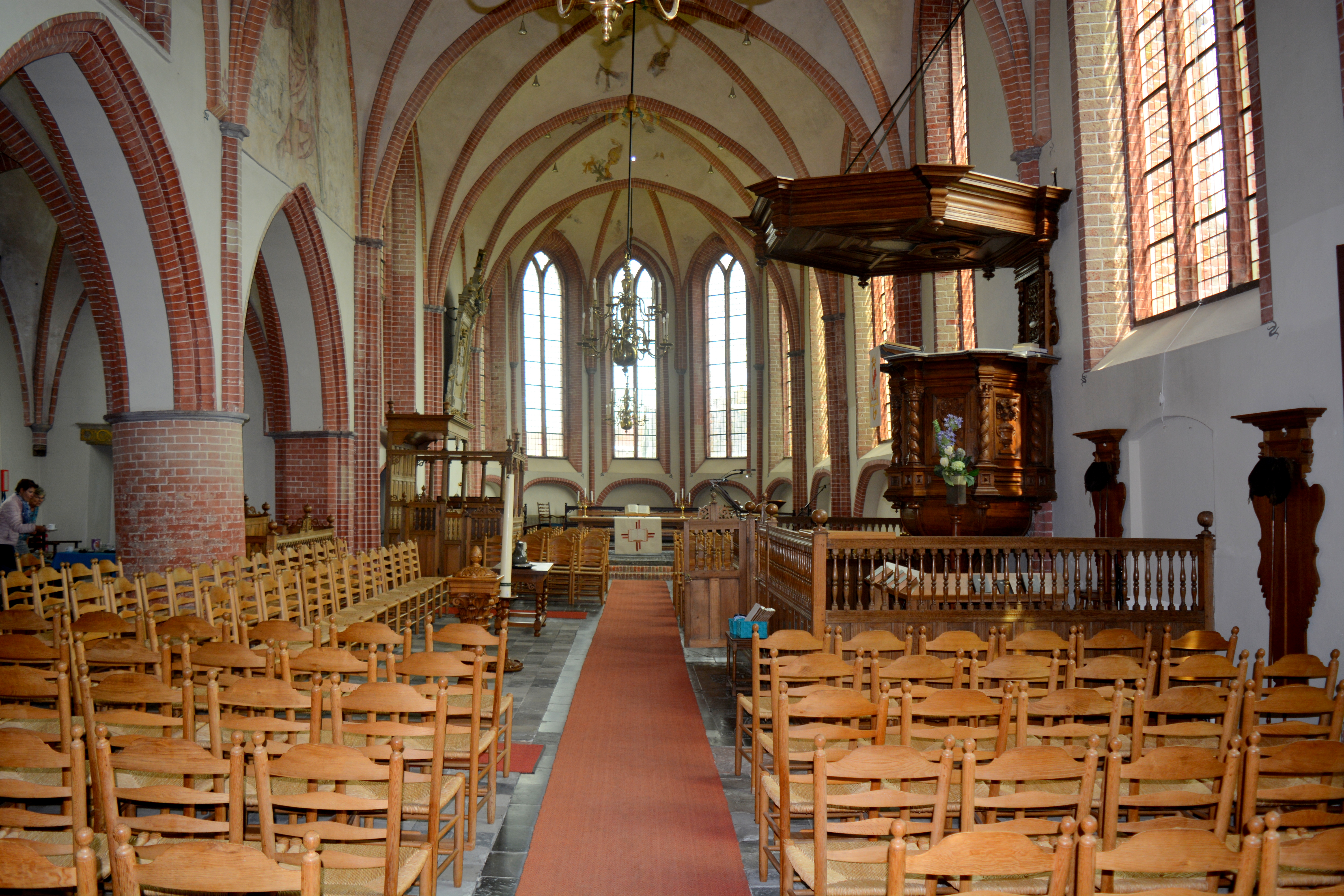 Kollum, Maartenskerk, interieur